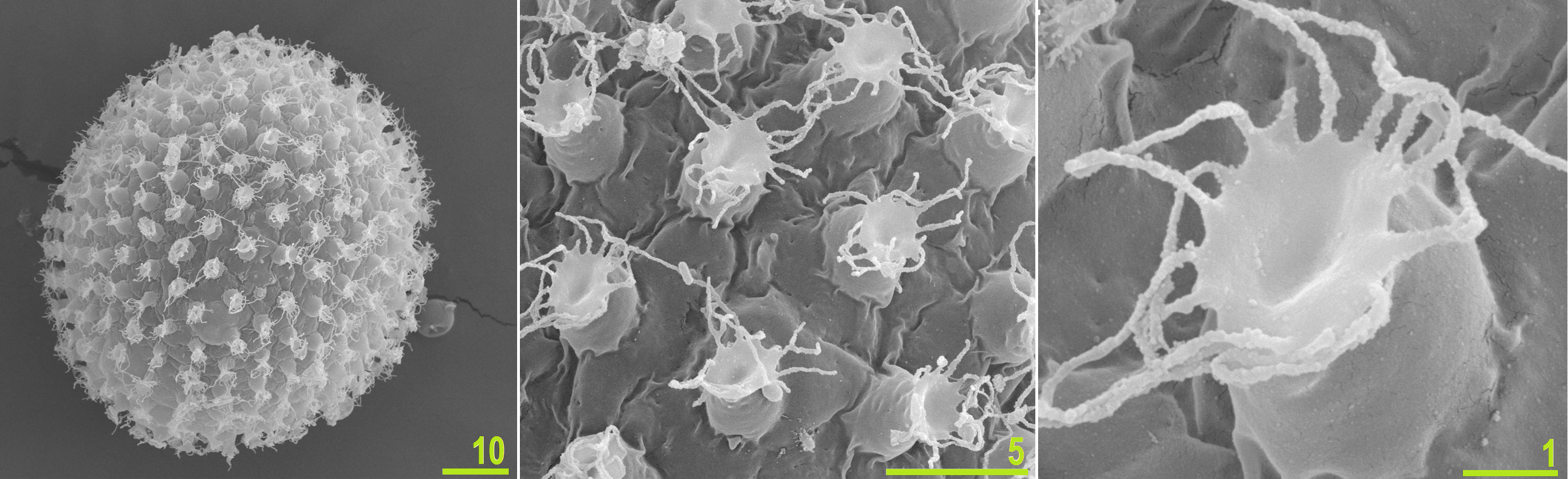 "Fig 7. Macrobiotus shonaicus sp. nov.–egg chorion morphology seen in SEM. Edited version of [File:Stec et al 2018 Fig 7 Macrobiotus shonaicus egg SEM.tif] by B kimmel A–B–entire eggs with clearly visible flexible filaments on the egg processes; C–D–processes with filaments of various lengths and the surface between processes; and E–F–zoom on a single-egg process. Scale bars in μm.